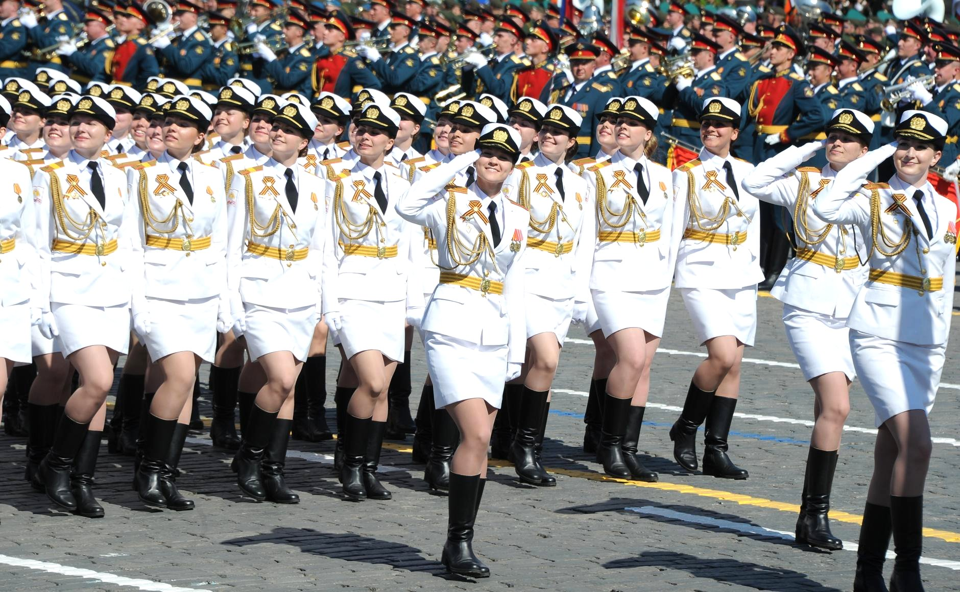 Military parade on Red Square 2016-05-09